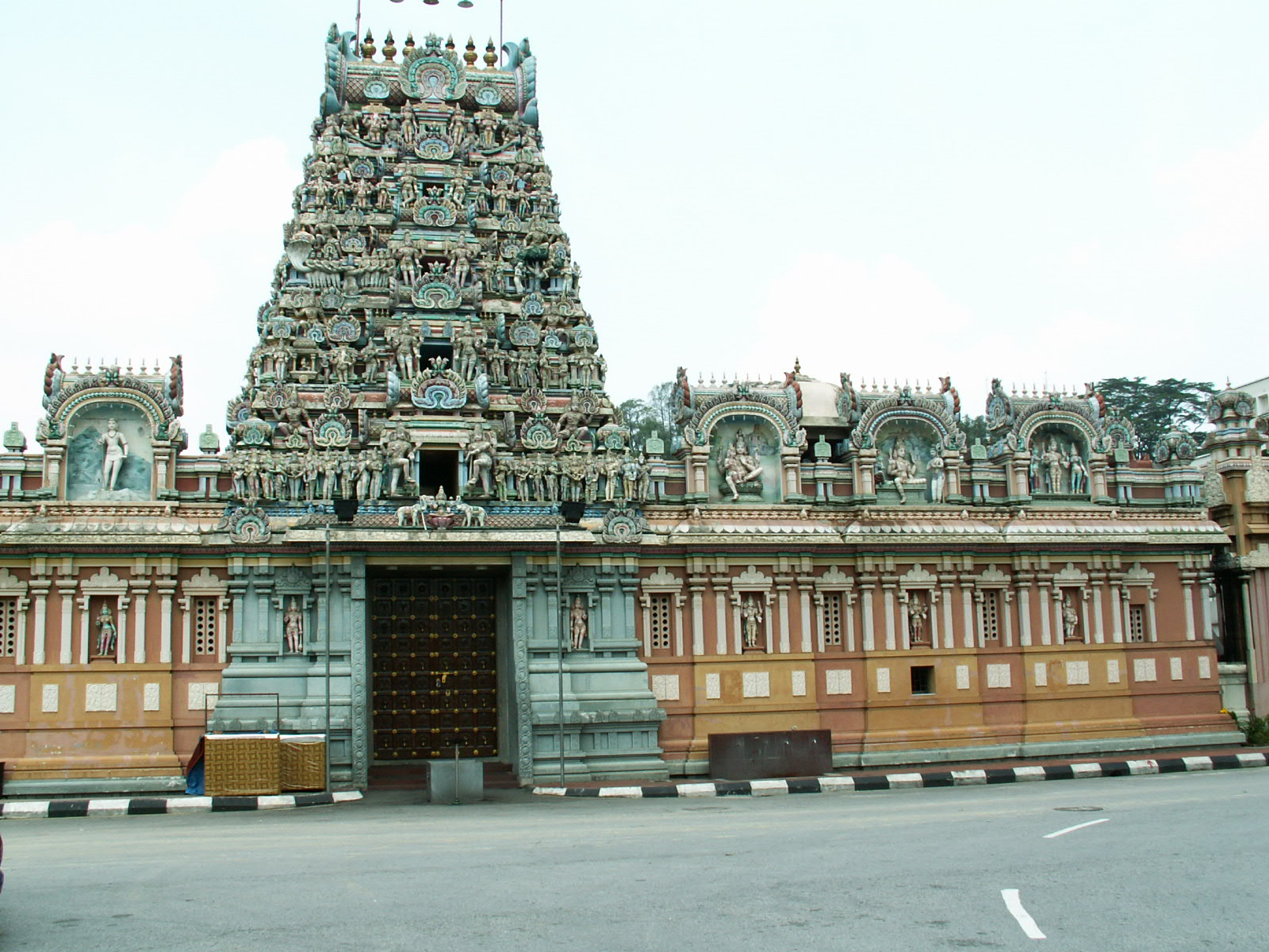 There are about 1.78 million Hindus in Malaysia, most of whom live on the western part of Peninsular Malaysia.